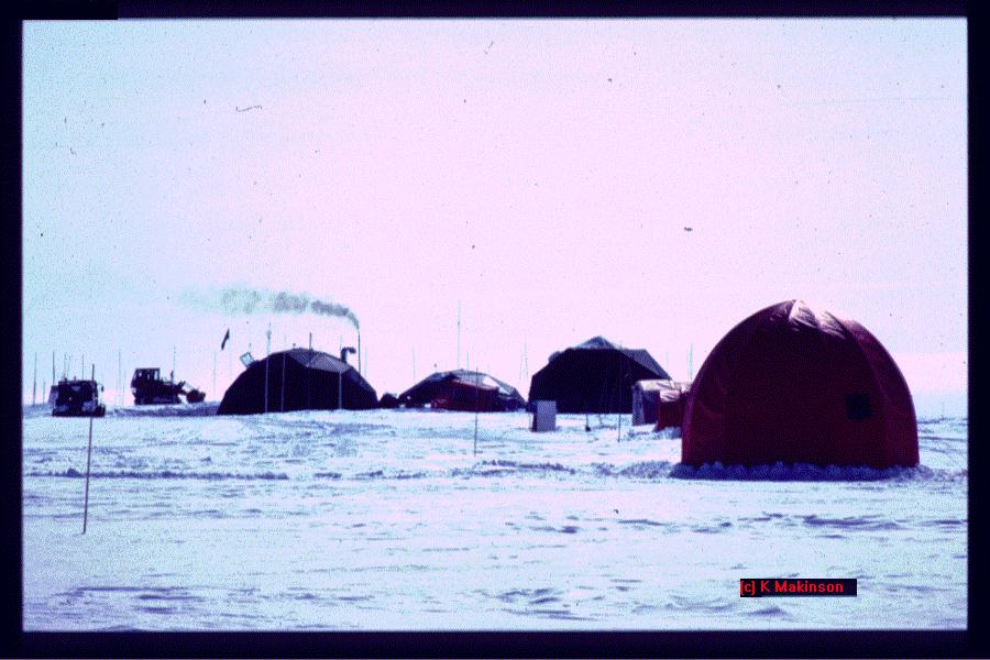 Greenland ice core project (GRIP) domes.